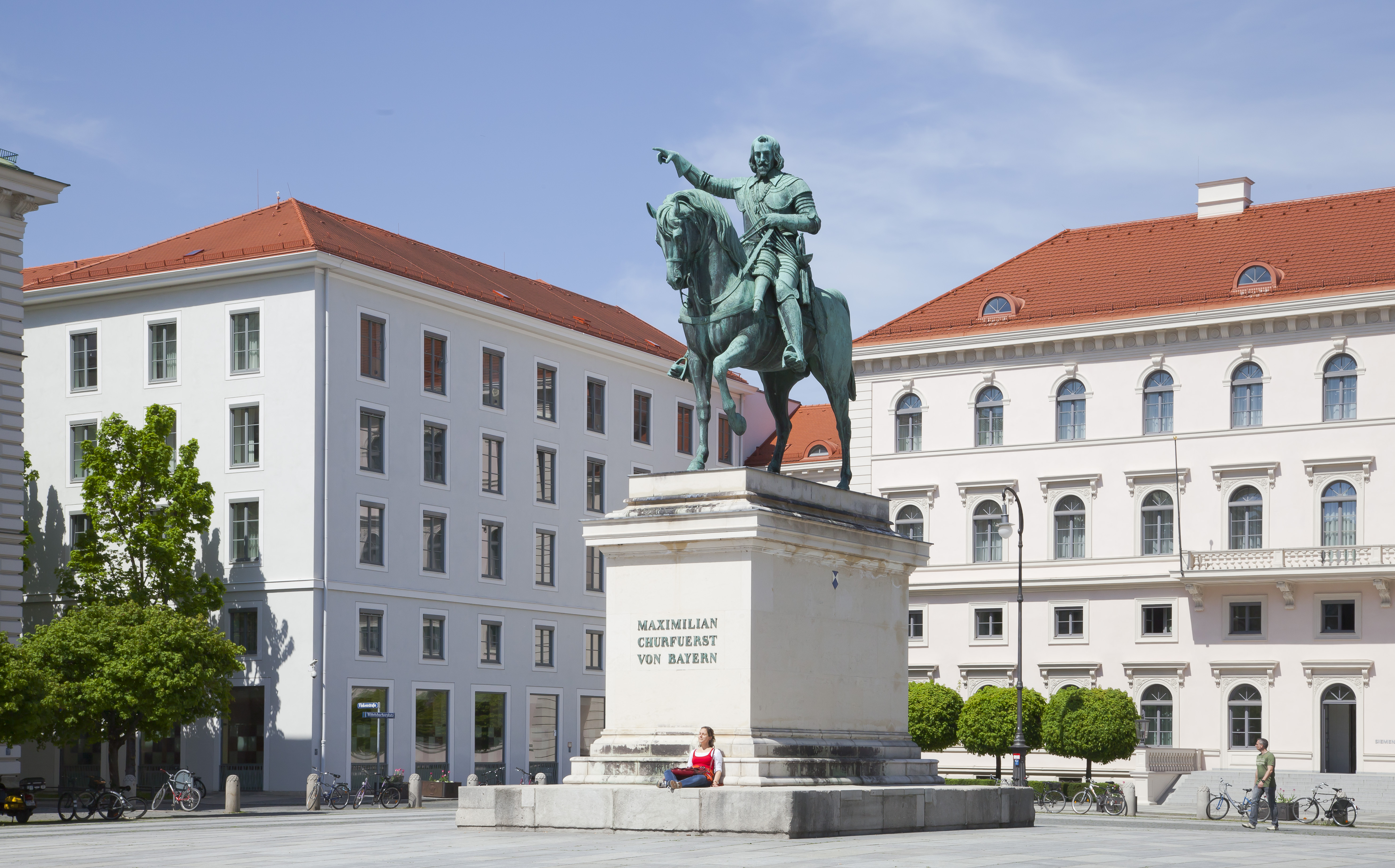 Monument to Maximilian I. Ludwig, Munich, Germany